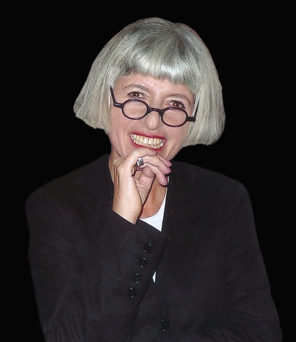 Gabrielle Rifkind, group analyst and conflict resolution specialist.